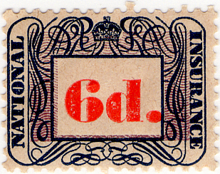 1948 6 pence National Insurance stamp.